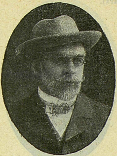 Afrimovich, a member of the second Russian State Duma from Samarkand city, 1907, a member of social-democrats fraction.